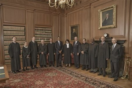 President Barack Obama and Vice President Joe Biden with the members of the Supreme Court and retiring justice David Souter